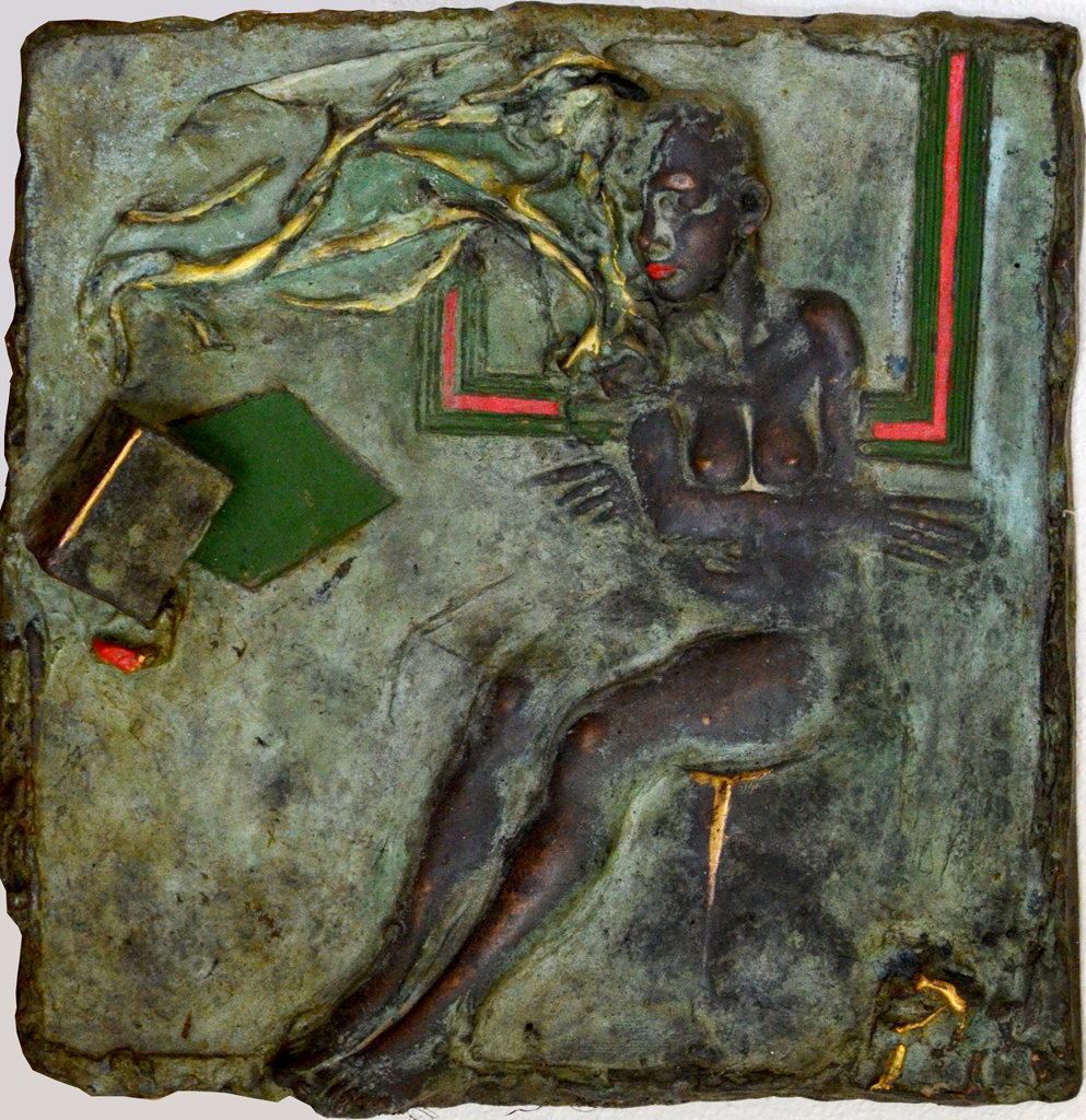 Peter Oriešek, No title, undated, bronze relief, 38x37 cm